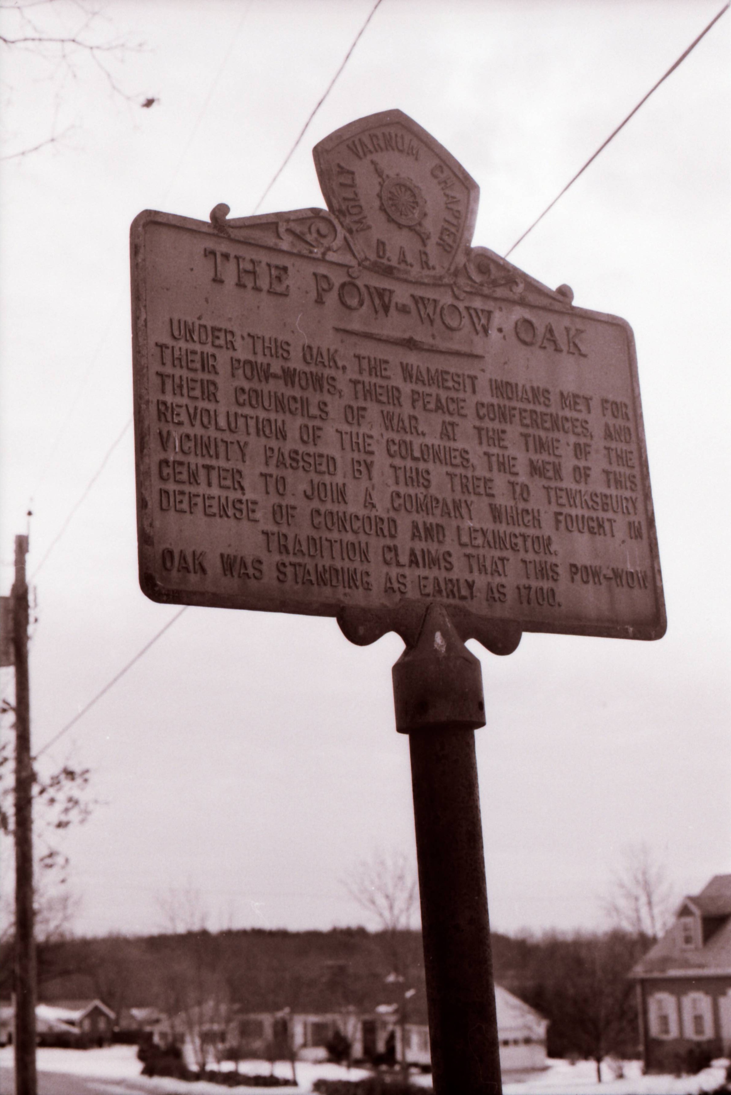 The MightyPowWowOakOnClarkRoadInBelvidereJanuary1974PhotoByGeorgeKoumantzelis9